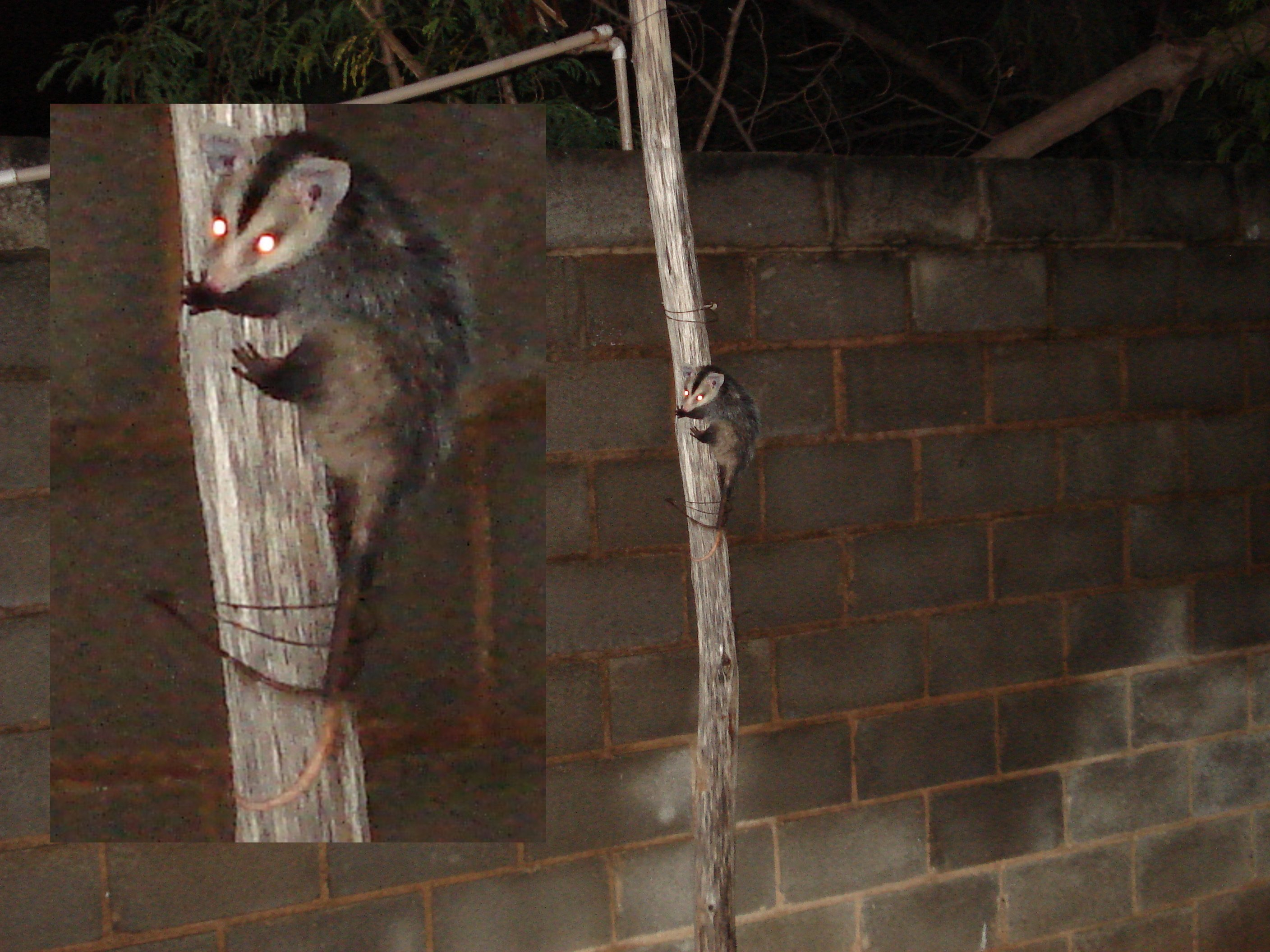 White-eared Opossum in urban area - Campinas - São Paulo - Brazil